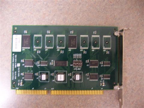 Picture of my own LD PEP card, taken by myself with my own camera for reference purposes.